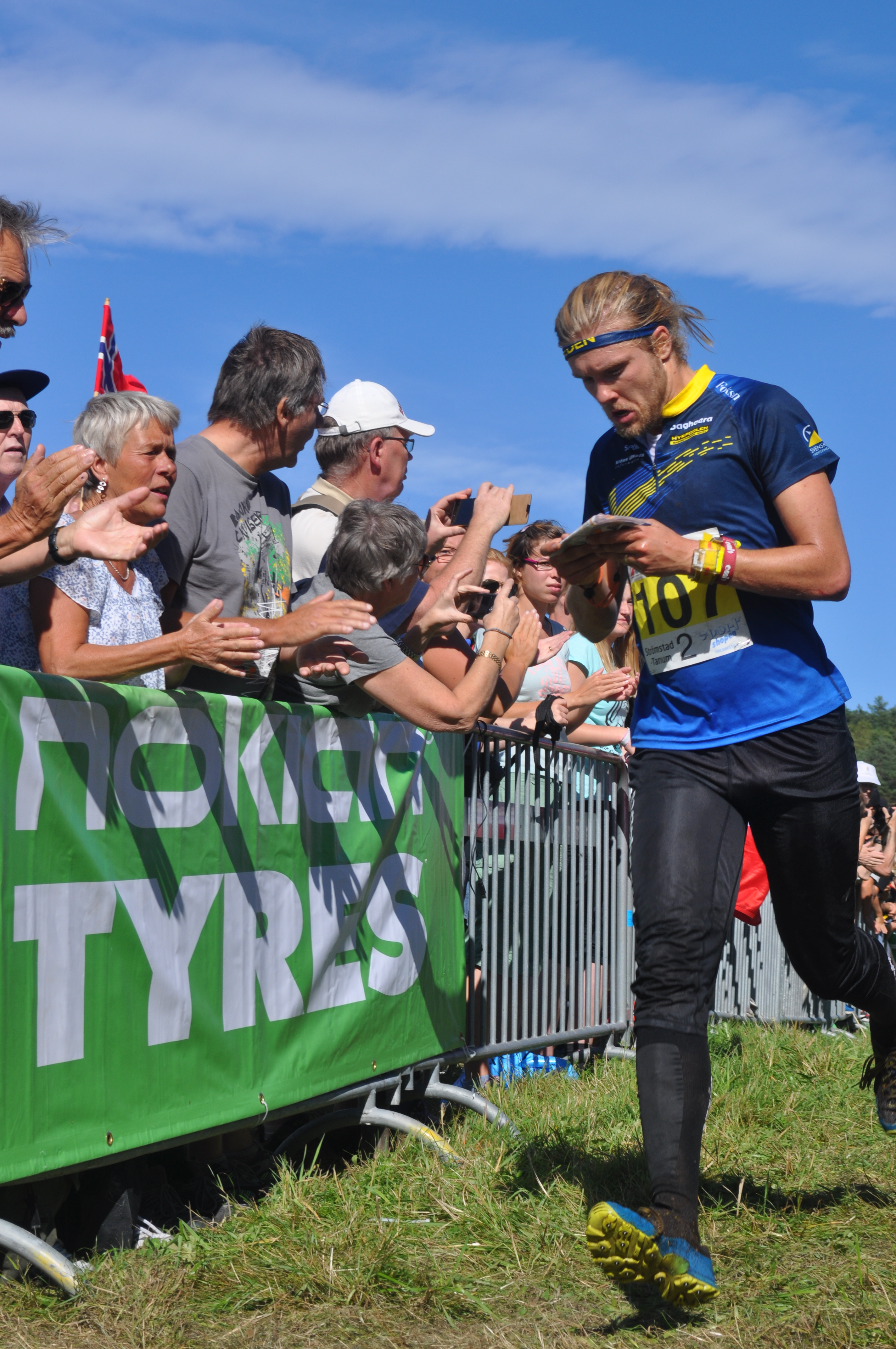 Gustav Bergman(Sweden) passing through the arena at the second leg in the relay.